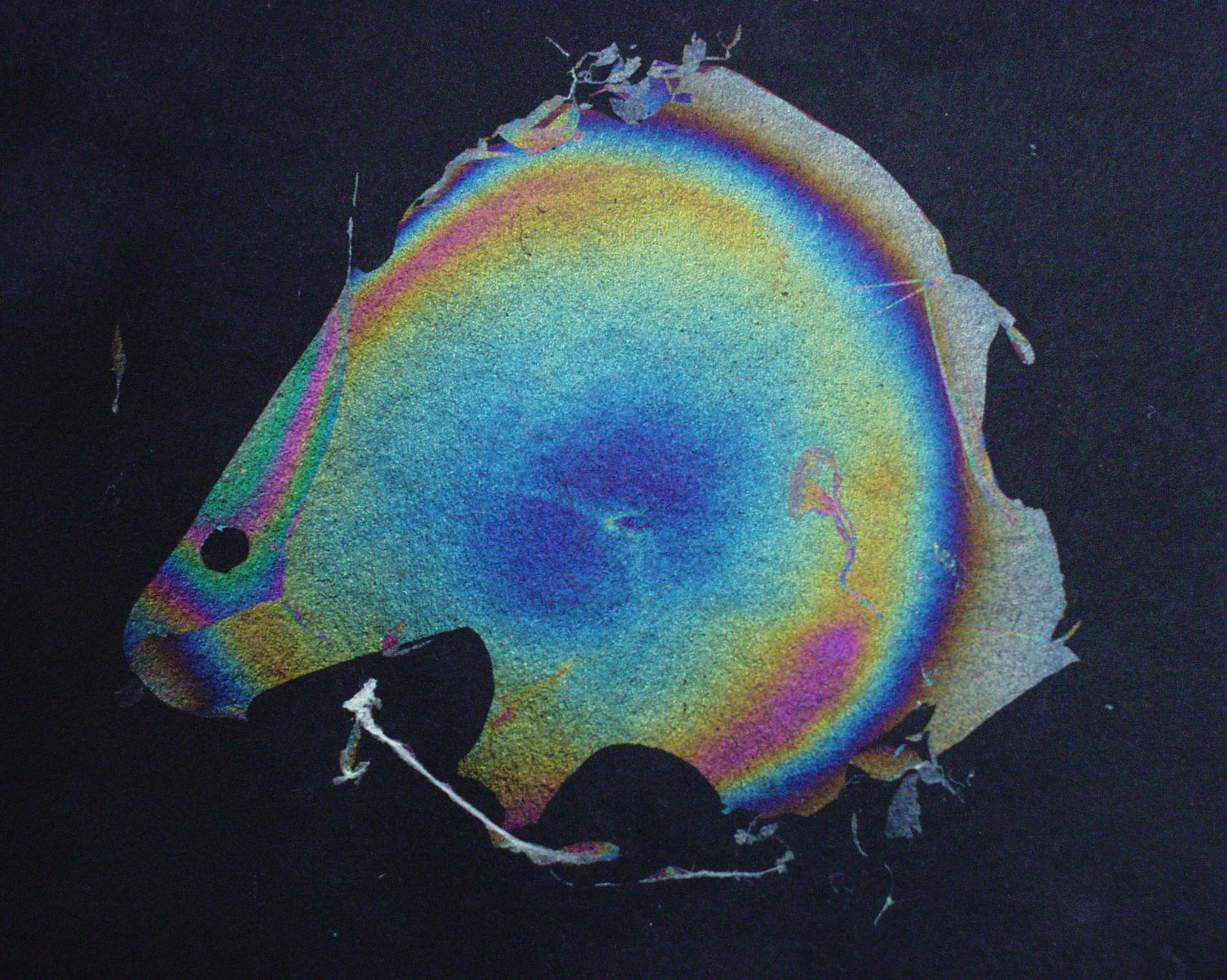 Interference on layer of lacquer (nail polish)